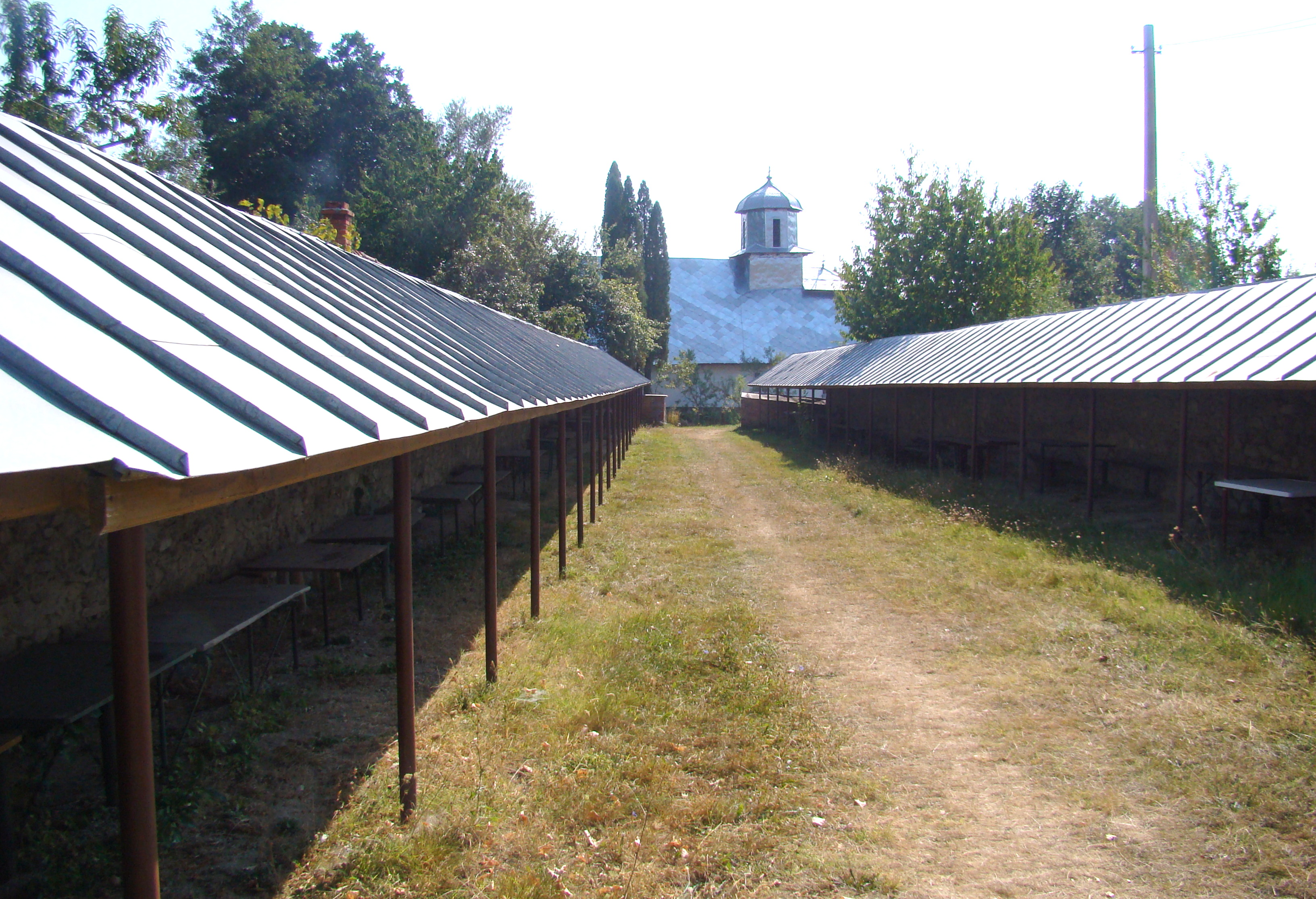 Wooden church of Pious Saint Parascheva in Cărpiniș, Gorj county, Romania